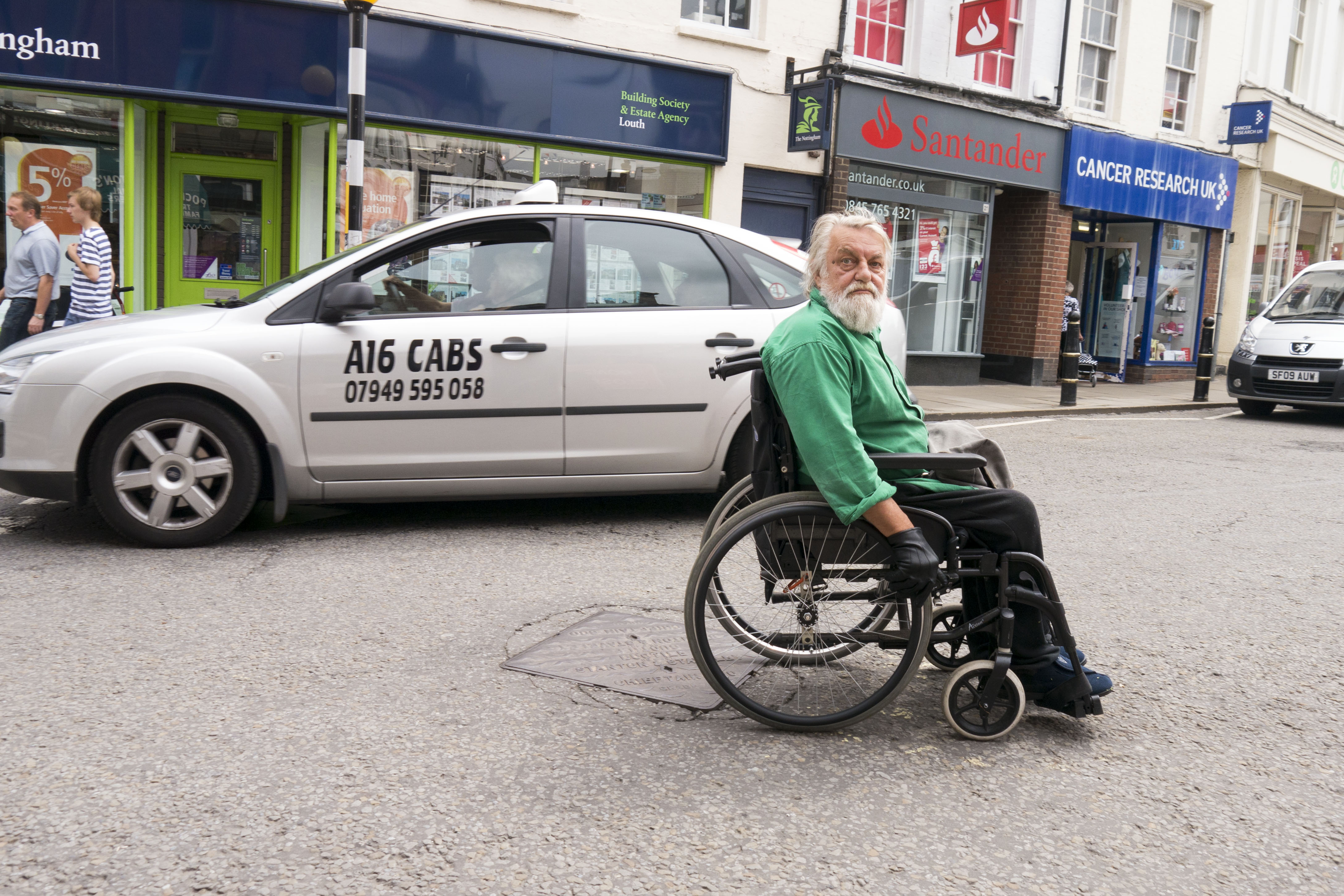 Robert Wyatt was a founding member of the Soft Machine, who along with Pink Floyd helped to transform the late sixties psychedelic scene in the UK into something more lasting. Through successive albums, Soft Machine soon moved toward a more jazz-based fusion with rock music, punctuated by Wyatt's distinctive drumming and vocals, attracting a massive following across Europe. After extensive touring, Wyatt left intending to pursue a solo career, but instead assembled Matching Mole who released two critically acclaimed LP's before disbanding prematurely. In 1973, Wyatt fell from a third floor window during a party, leaving him paralysed from the waist downwards. From that day onwards he has concentrated his efforts into solo recordings, mixing simple and effective keyboard melody lines with poignant lyrics, often filled with personal and political references. The results have proved both haunting and reflective, even producing two chart hits - his 1974 re-working of 'I'm a Believer', and the 1983 Falklands War indictment 'Shipbuilding' written especially for him by Elvis Costello.